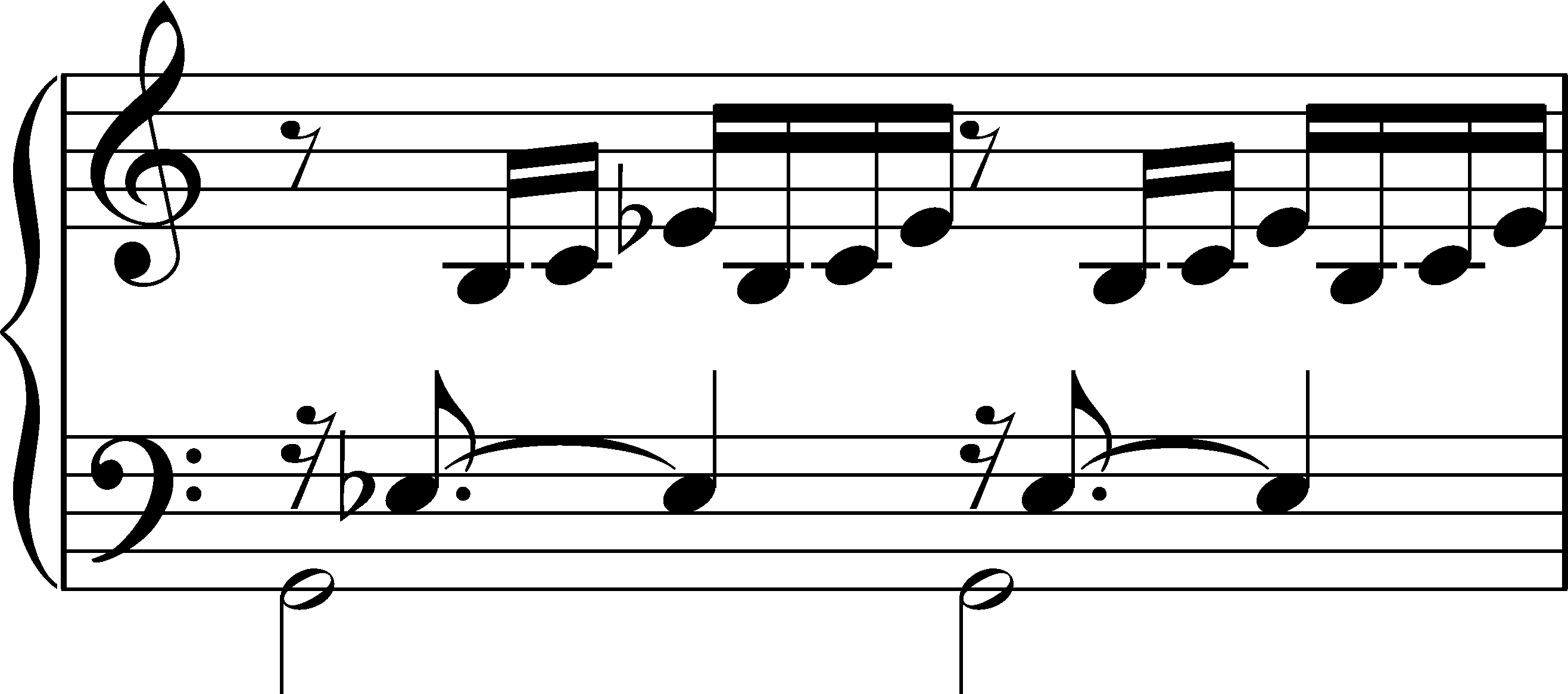 The "Schwencke measure" added to J.S. Bach's Prelude in C Major BWV 846